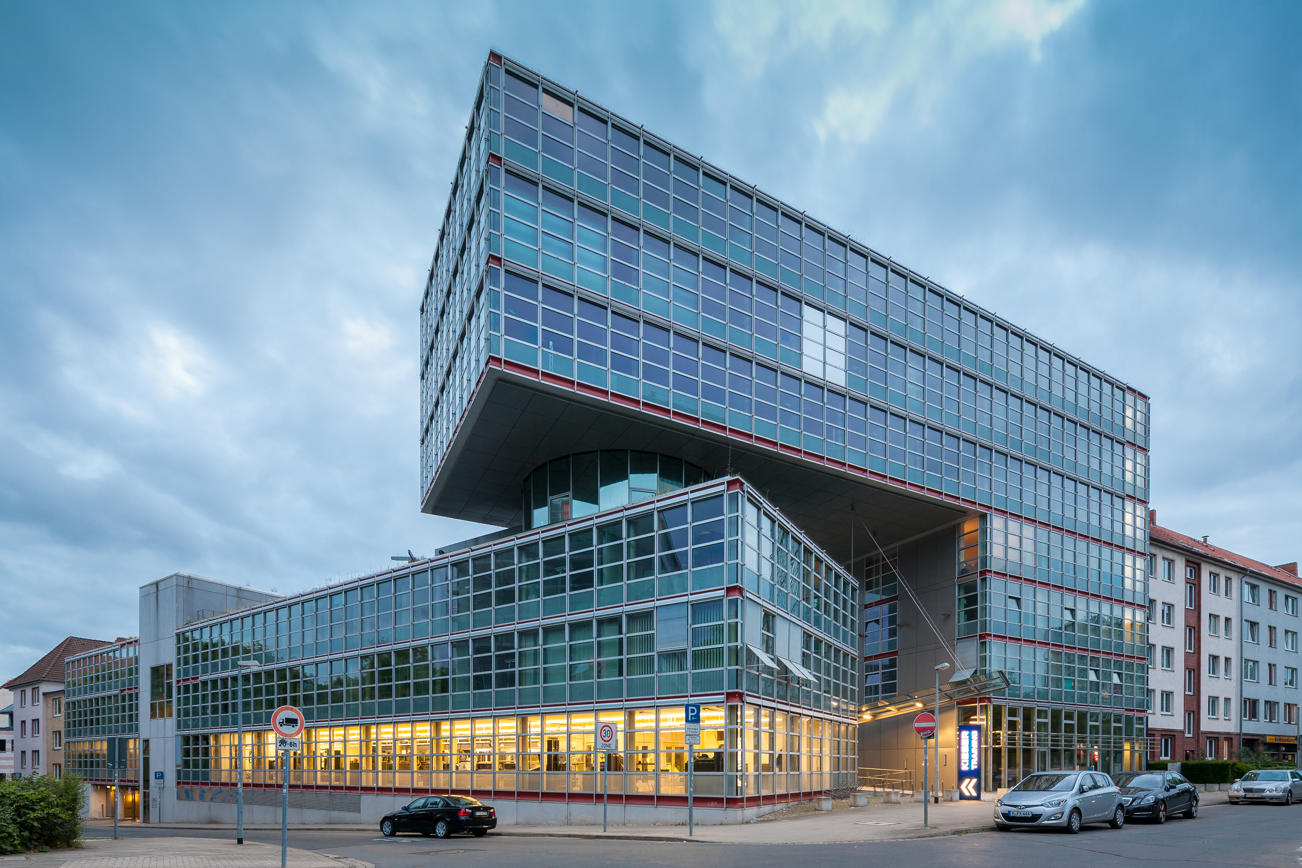 "Torhaus" office building located in Bruehlstrasse, Hanover, Germany.